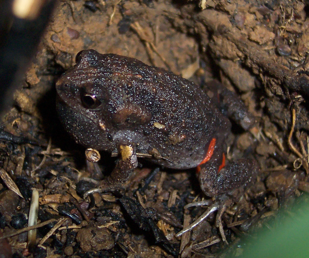 A male Smooth Toadlet, (Uperoleia laevigata), showing distinct large red thigh patches. Category:Frog images